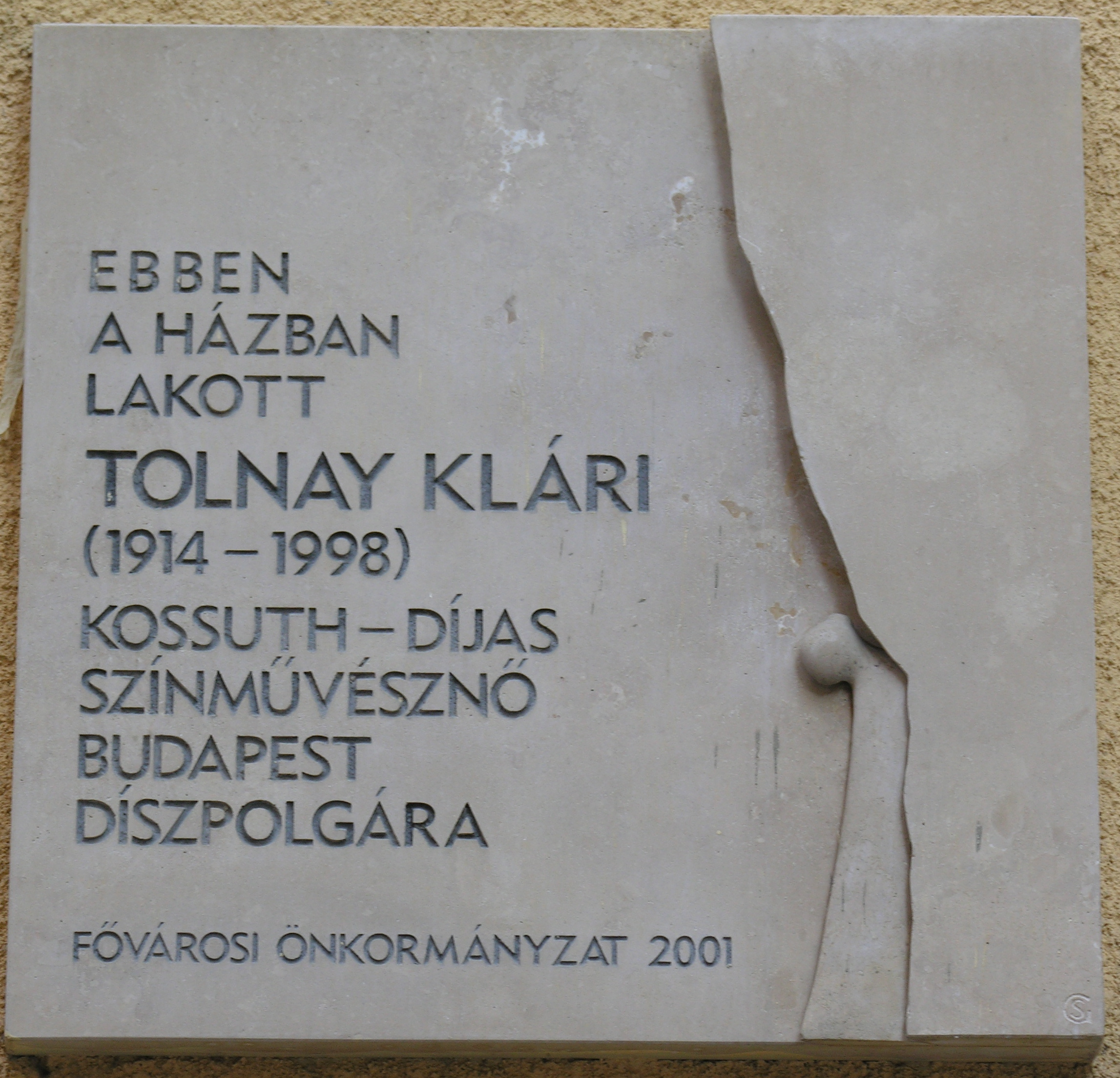 Commemorative plaque of Klári Tolnay in Budapest District V, Fejér György Street No 6